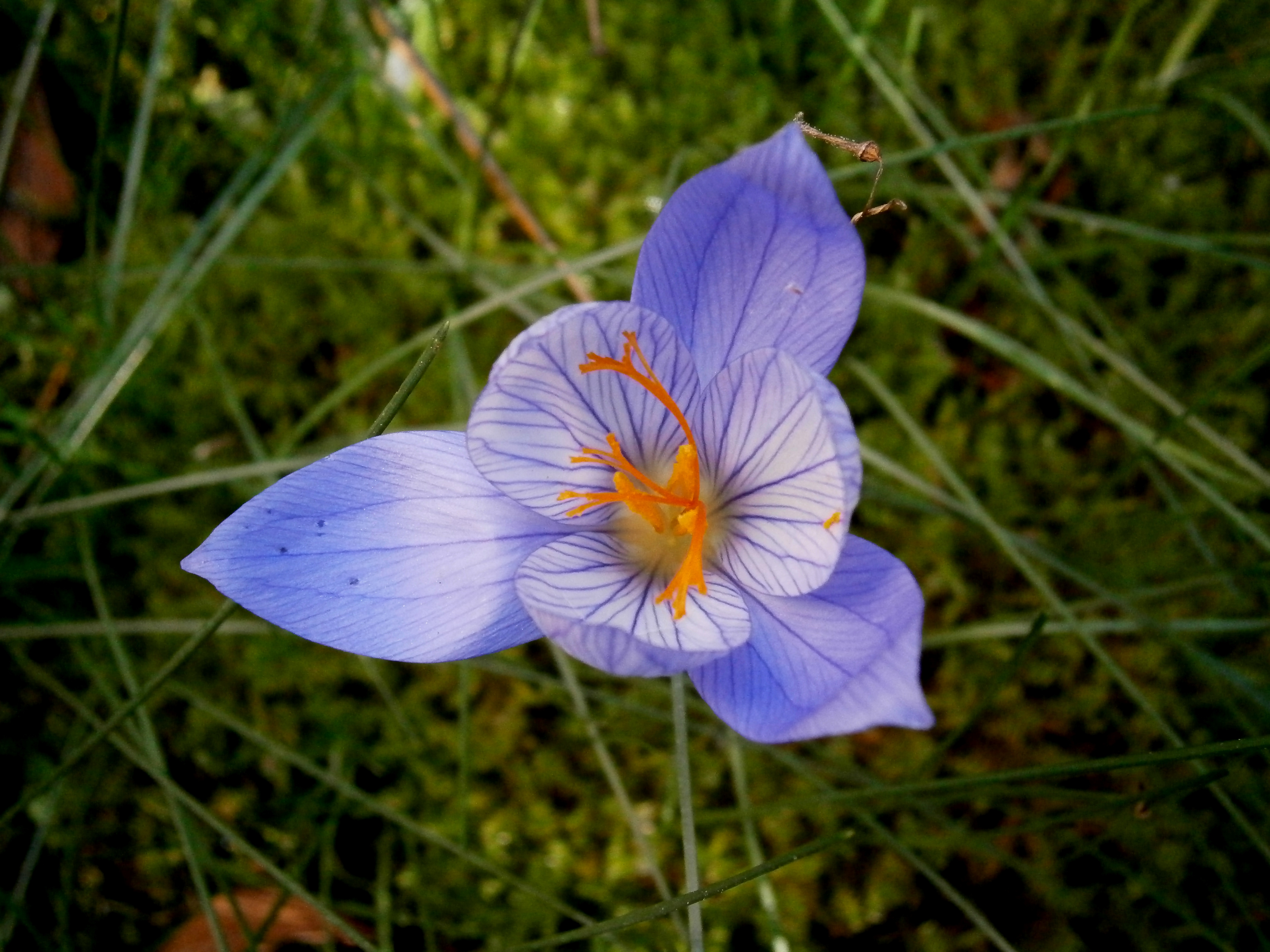 Crocus speciosus 'Artabir' - detail